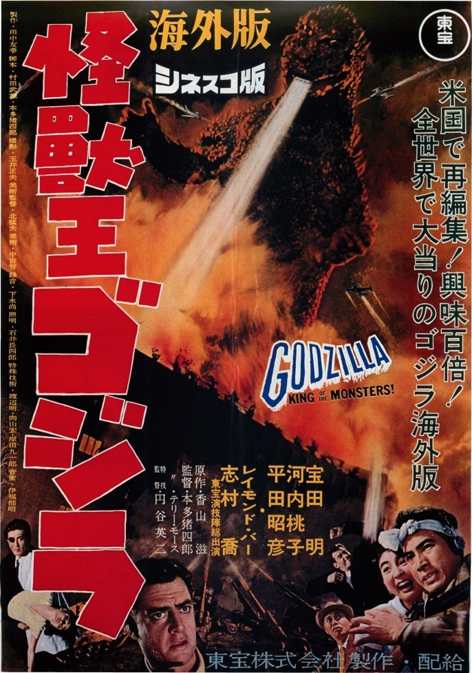 Japanese movie poster for 1956 American film Godzilla, King of the Monsters!